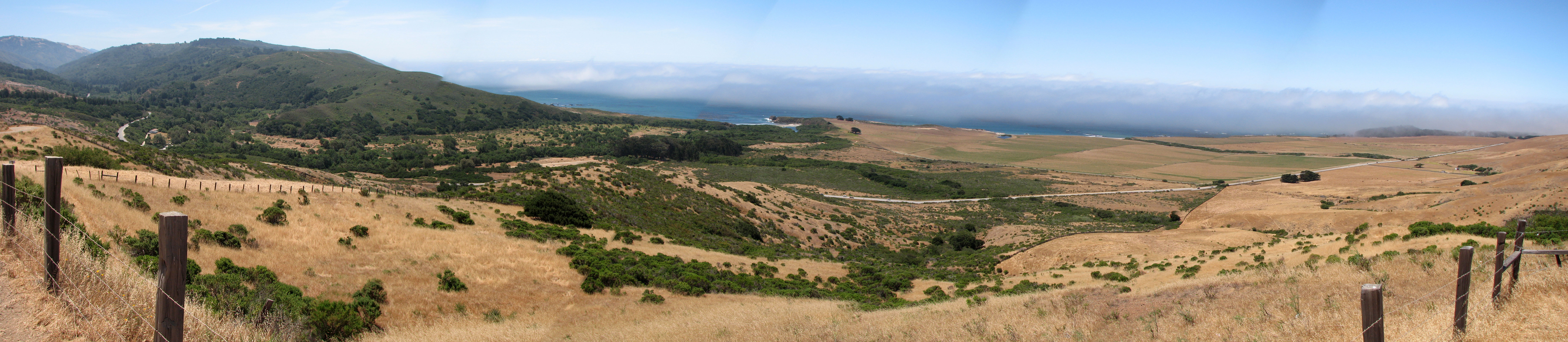 Looking west from Old Coast Road, Andrew Molera State Park is on the left. The Big Sur River meets the Pacific just in the middle of the picture. Cattle are grazing on the El Sur Ranch on the right.